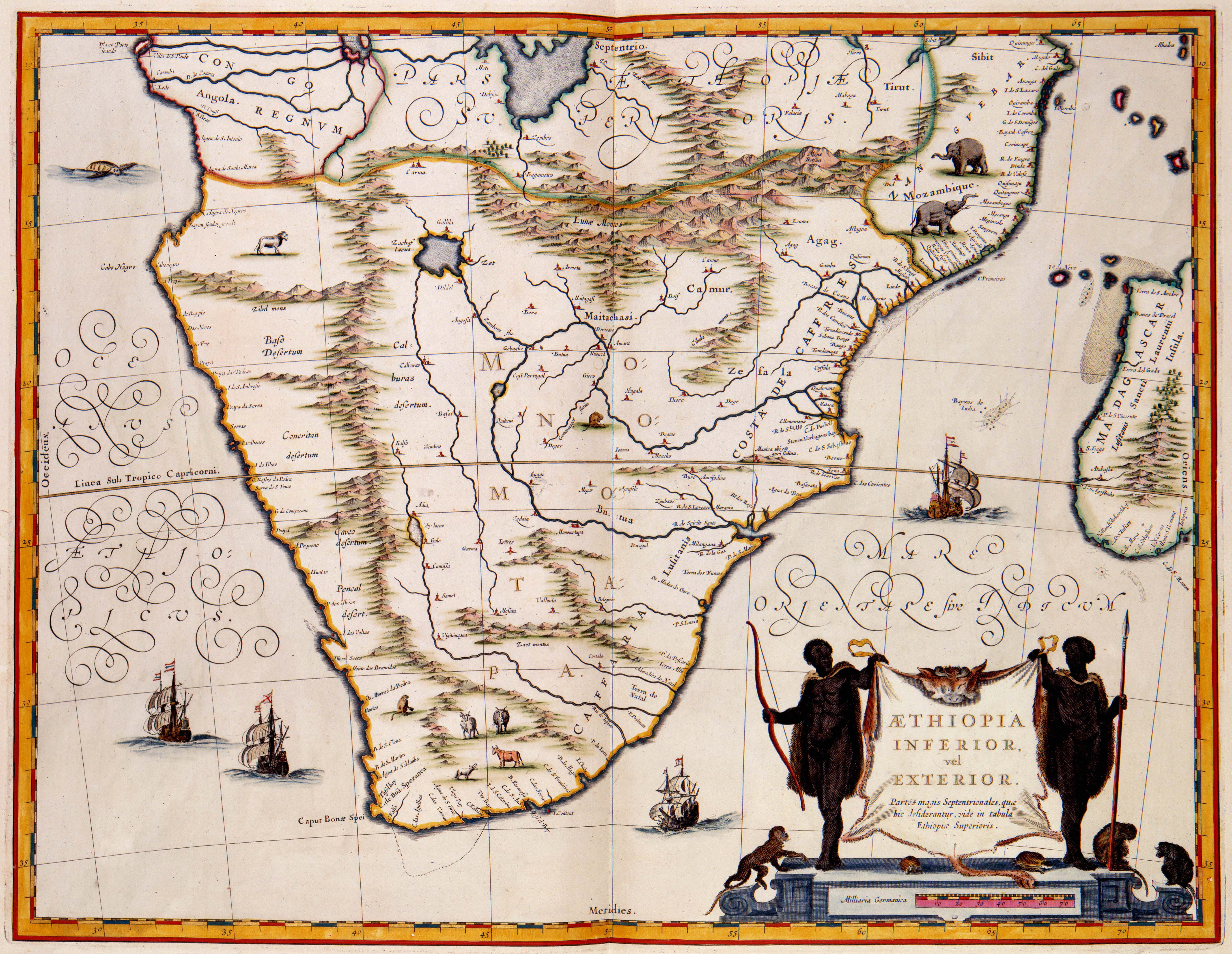 This map by Willem Jansz. Blaeu (c.1571-1638) was used as a model in the 17th century for many maps of South-Afric. The map is partly based on the map of the kingdom of Prester John by Abraham Ortelius (1527-1598) from 1573. According to old legends there was a christian kingdom somewhere in the unexplored inlands of Afric. The east coast has been represented relatively accurately for which Blaeu probable made use of Portugese sources. The two great lakes south of the equator were represented based on descriptions by Ptolemeus from the second century. The lakes were believed to be the sources of the River Nile.